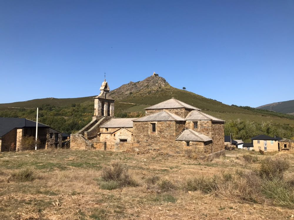 Iglesia de Valdavido y castillo